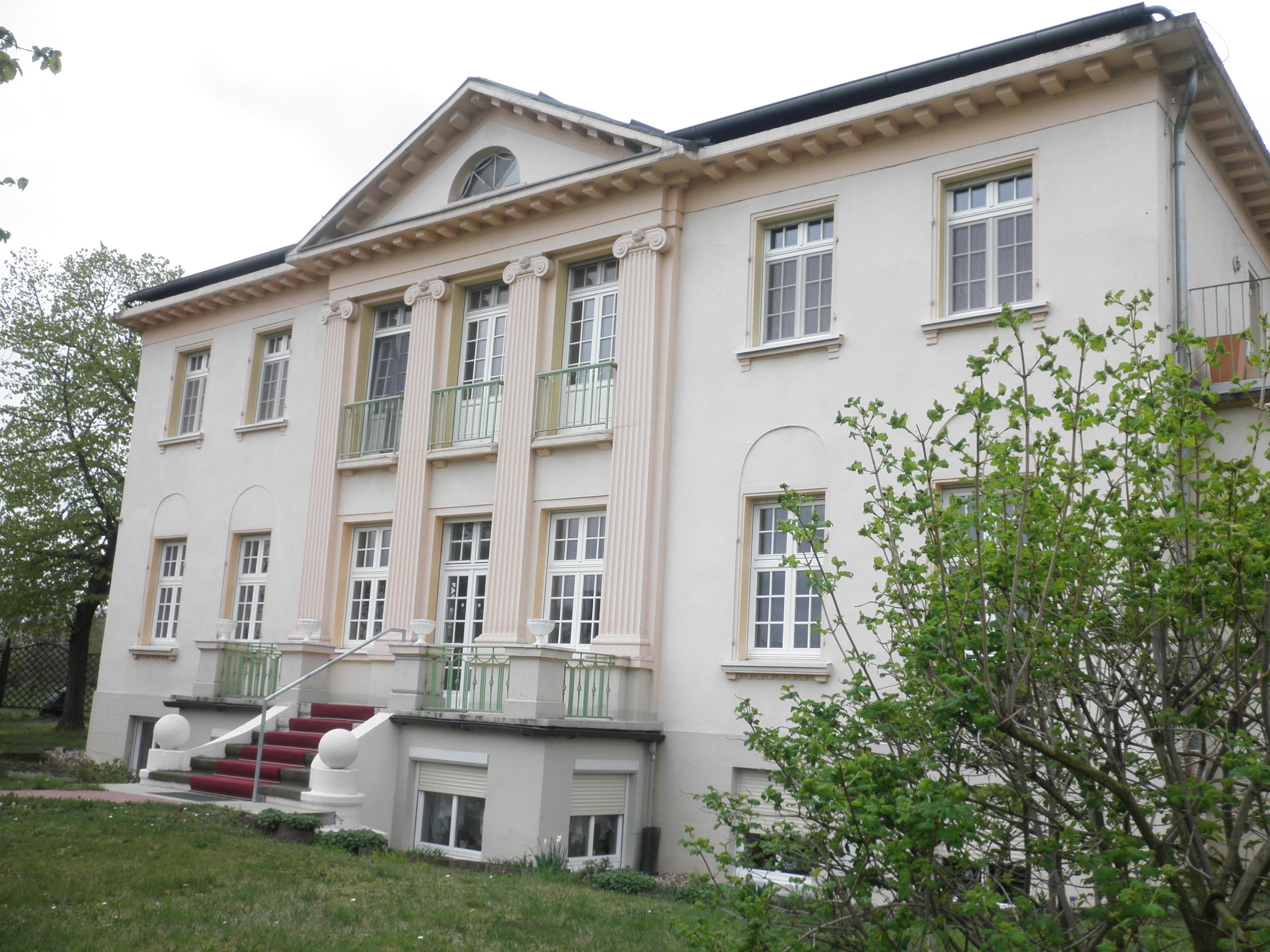 Leuna Villa Barth